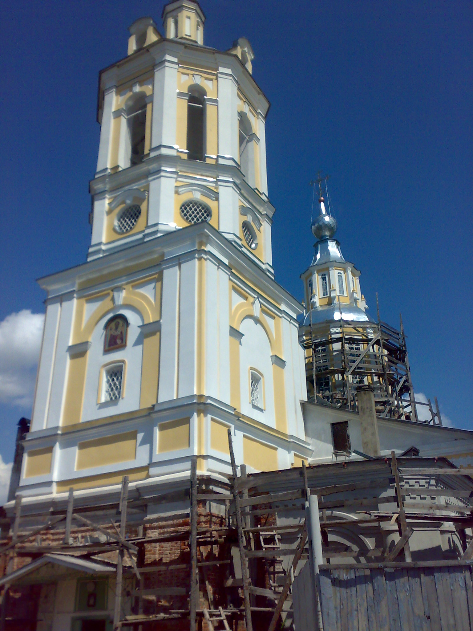 took this photo using my mobile, in July 2008, in Kozelsk.